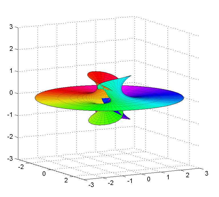 A plot of Richmond's minimal surface for m=2.